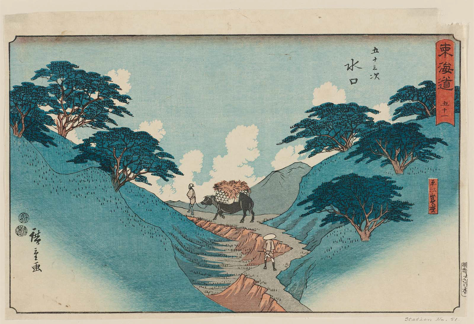 No. 51 - Minakuchi: Pine Trees at Hiramatsuyama (Minakuchi, Hiramatsuyama bishô), from the series The Tôkaidô Road - The Fifty-three Stations (Tôkaidô - Gojûsan tsugi), also known as the Reisho Tôkaidô